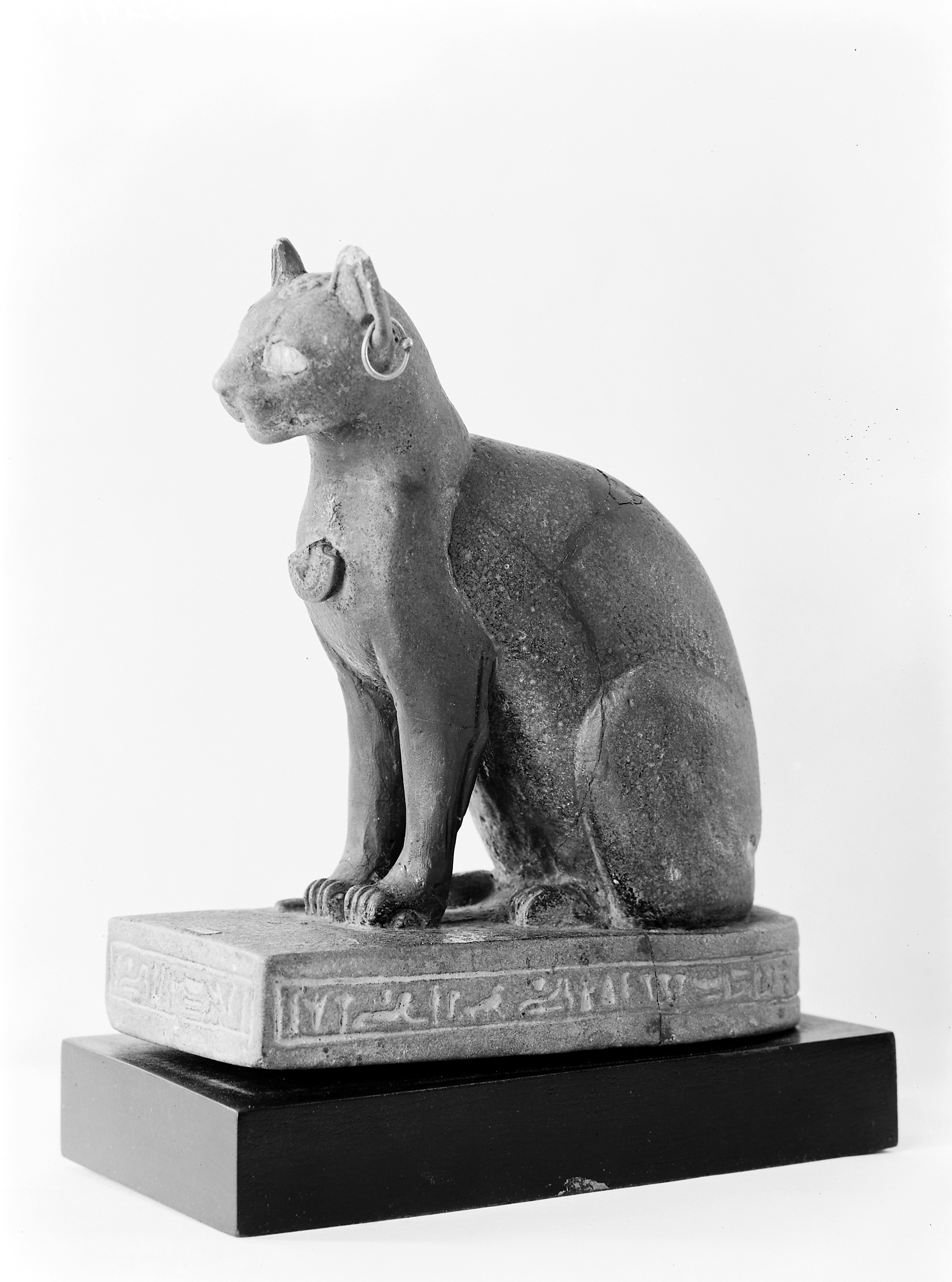 Egyptian figure of a cat. 3/4 view. Wellcome Images Keywords: egyptology